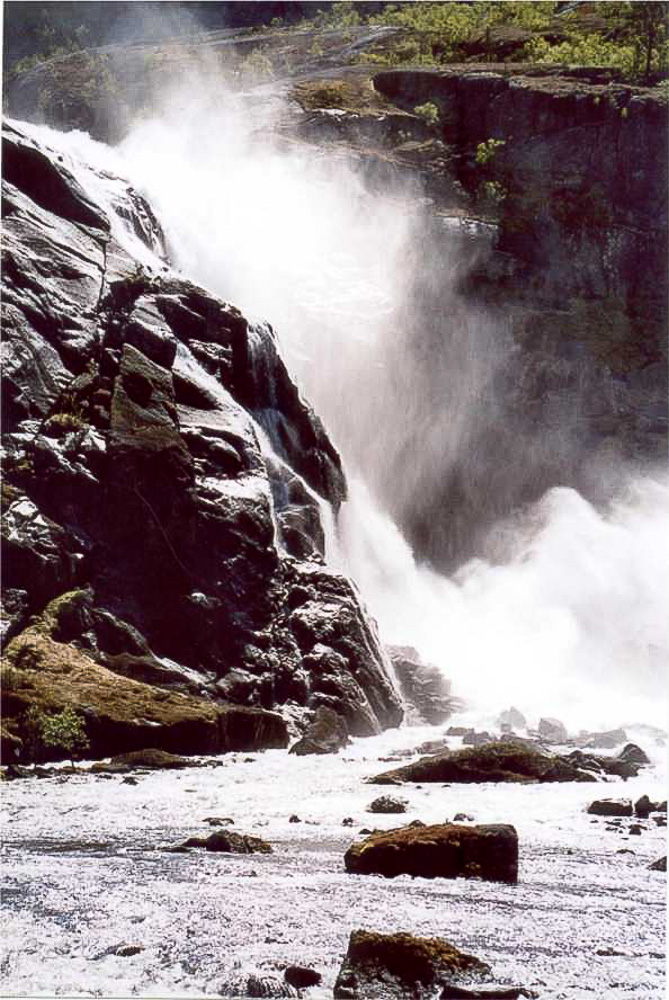 Nykkjesøyfossen